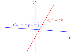 Two linear functions. One intersecting the origin of coordinate system.